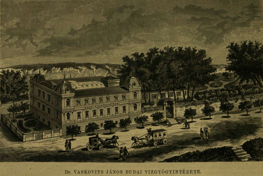 Healing waters sanatorium of Vaskovits János